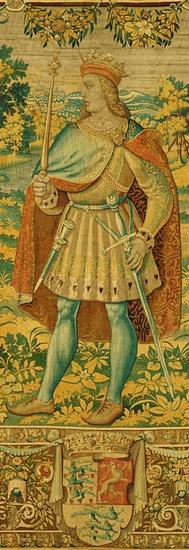 Oluf II of Denmark depicted on the so-called Kronborg tapestries, 40 tapestries depicting Danish kings commissioned by Frederik II for the Grand Hall at Kronborg Castle